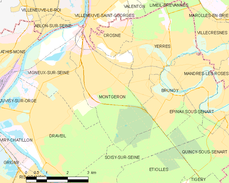 Map of French municipality Montgeron